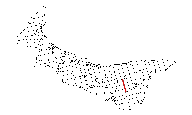 Public domain map of Prince Edward Island created by User:Plasma east with data courtesy of Geogratis, modified to show townships. Released under GFDL (self).